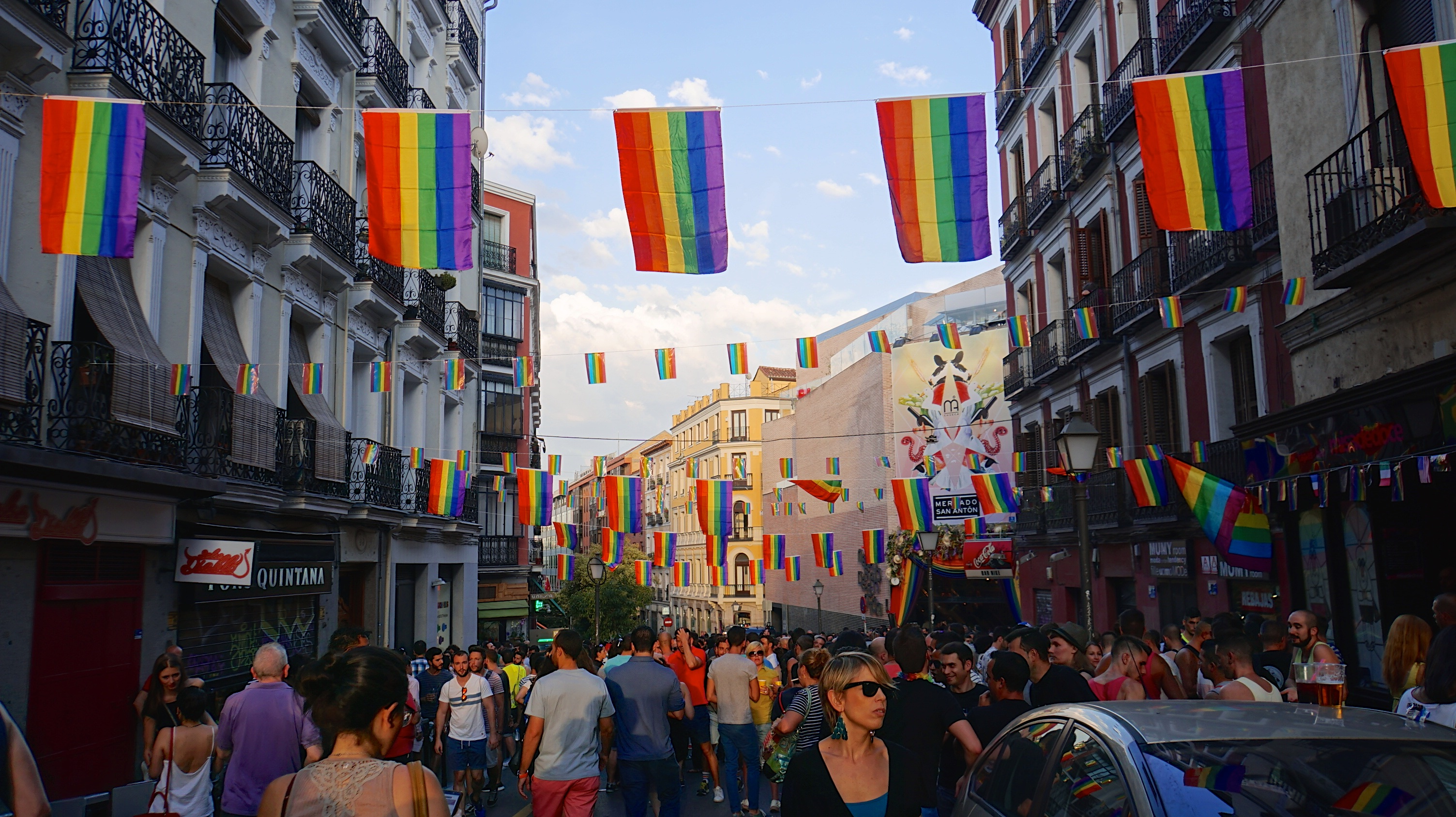 2015.07.01 Madrid Orgullo - LGBTQ Pride